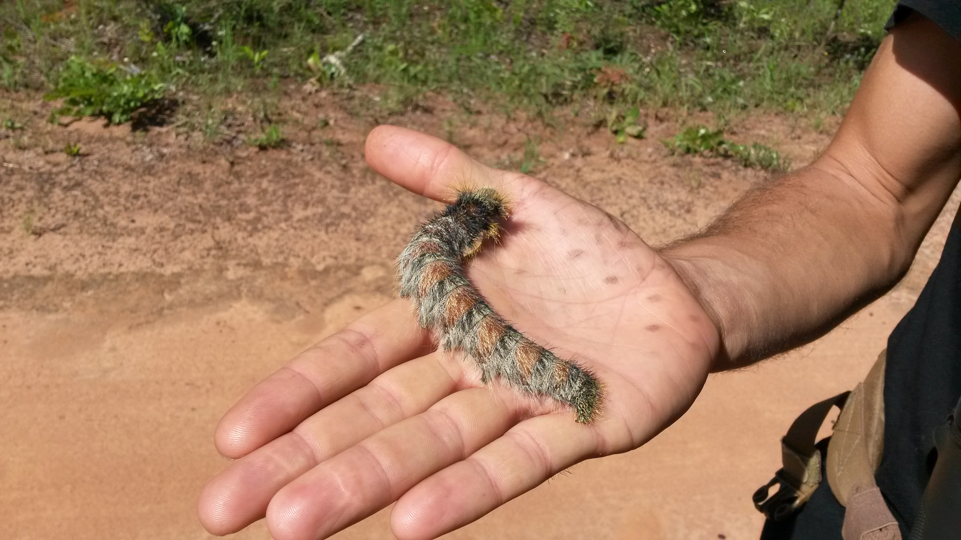 Gonometa. Mutinondo Wilderness Zambia